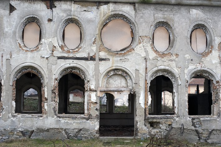 Bulgaria: Samokov Synagogue